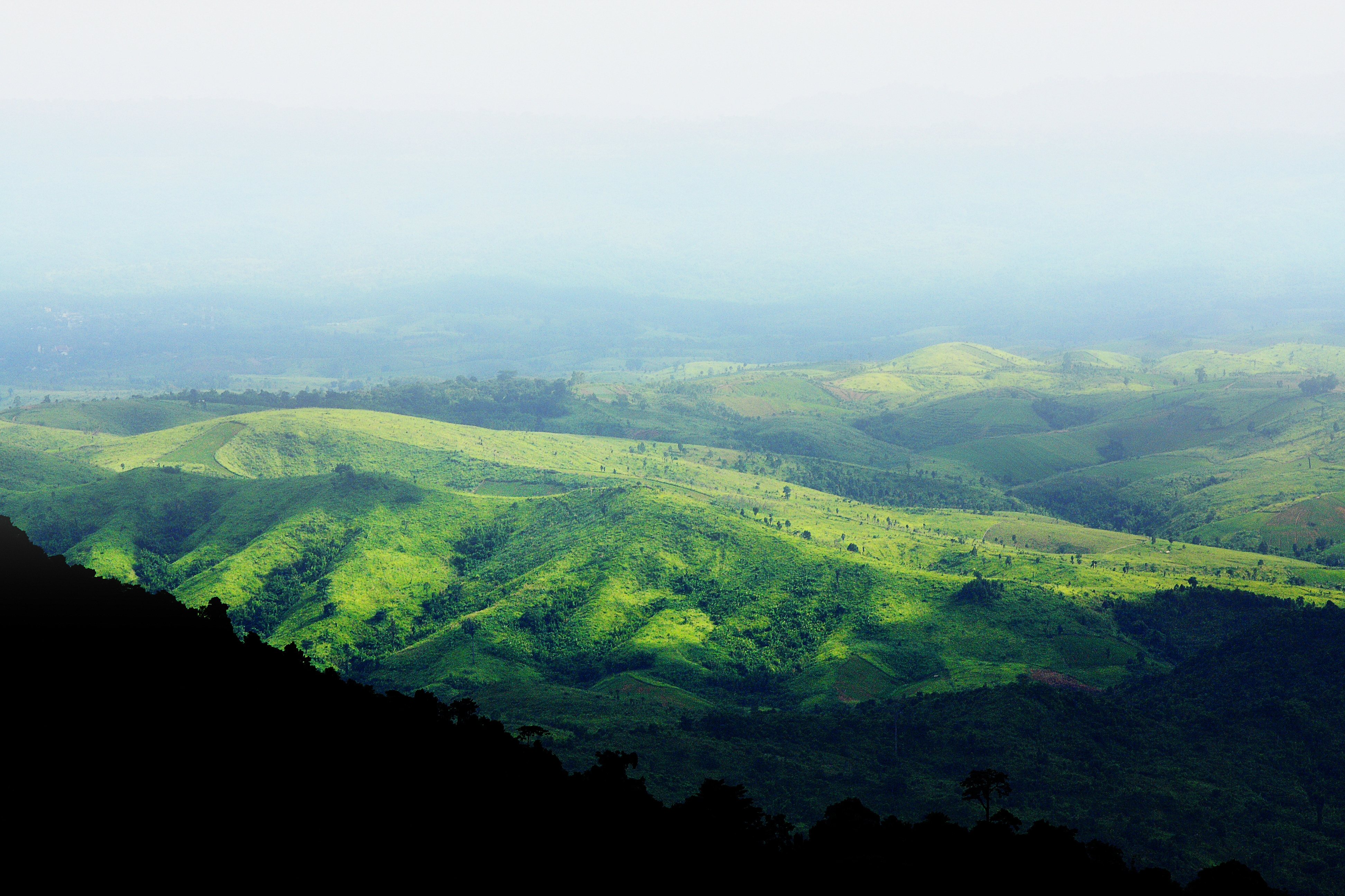 อุทยานแห่งชาติภูหินร่องกล้า